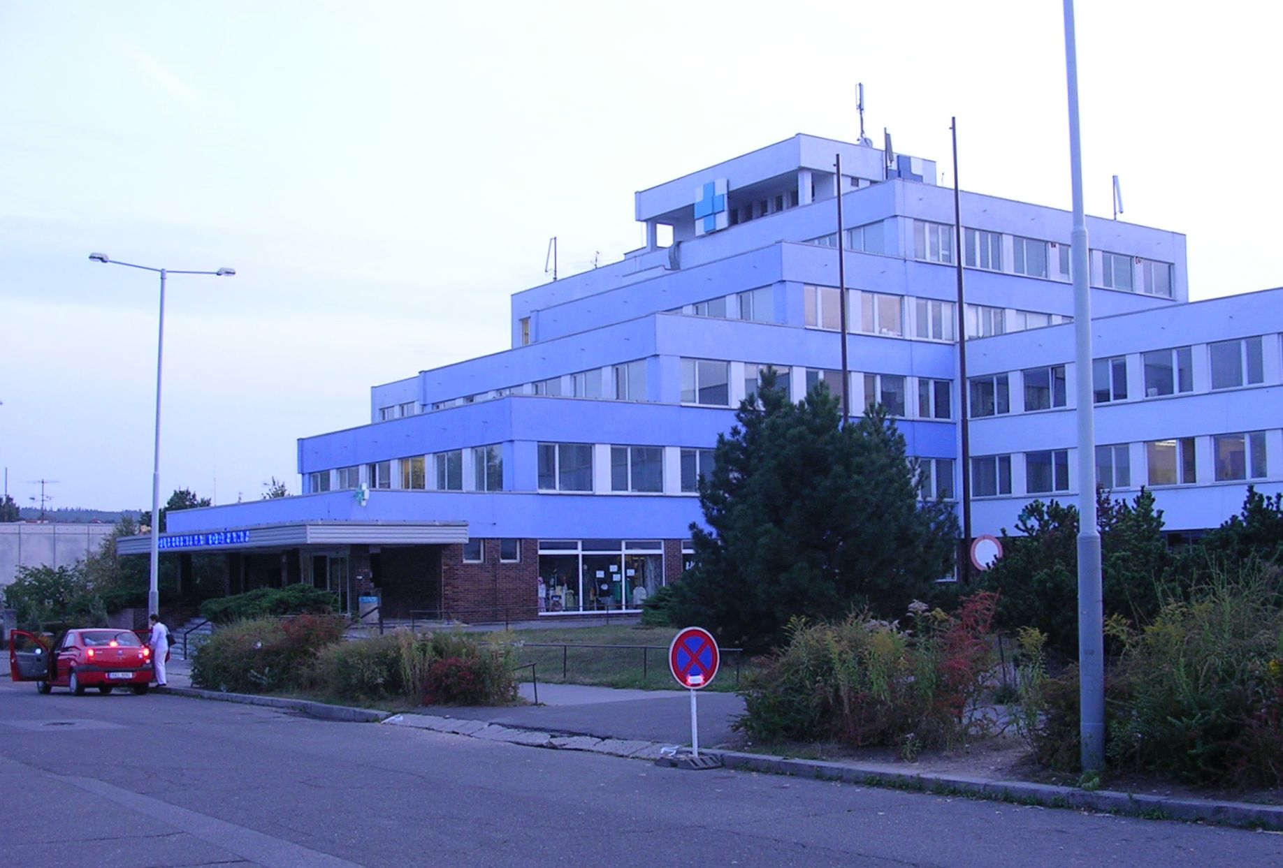 Modřany, Prague, the Czech Republic. A policlinic.